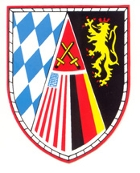 coat of arms military training area